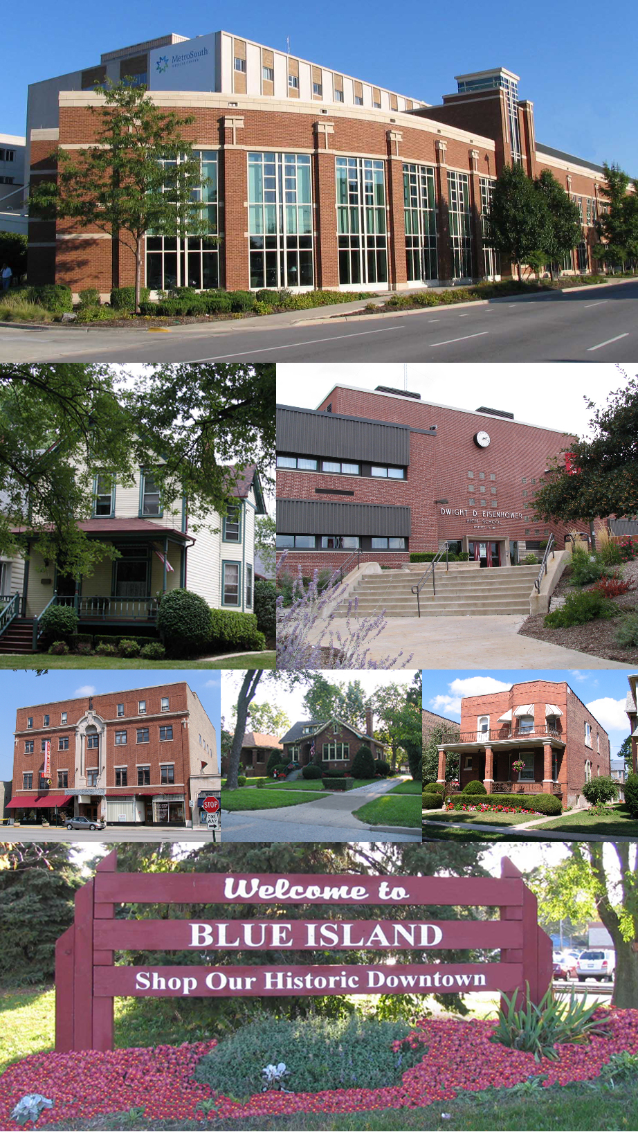 Montage of scenes from Blue Island, Illinois